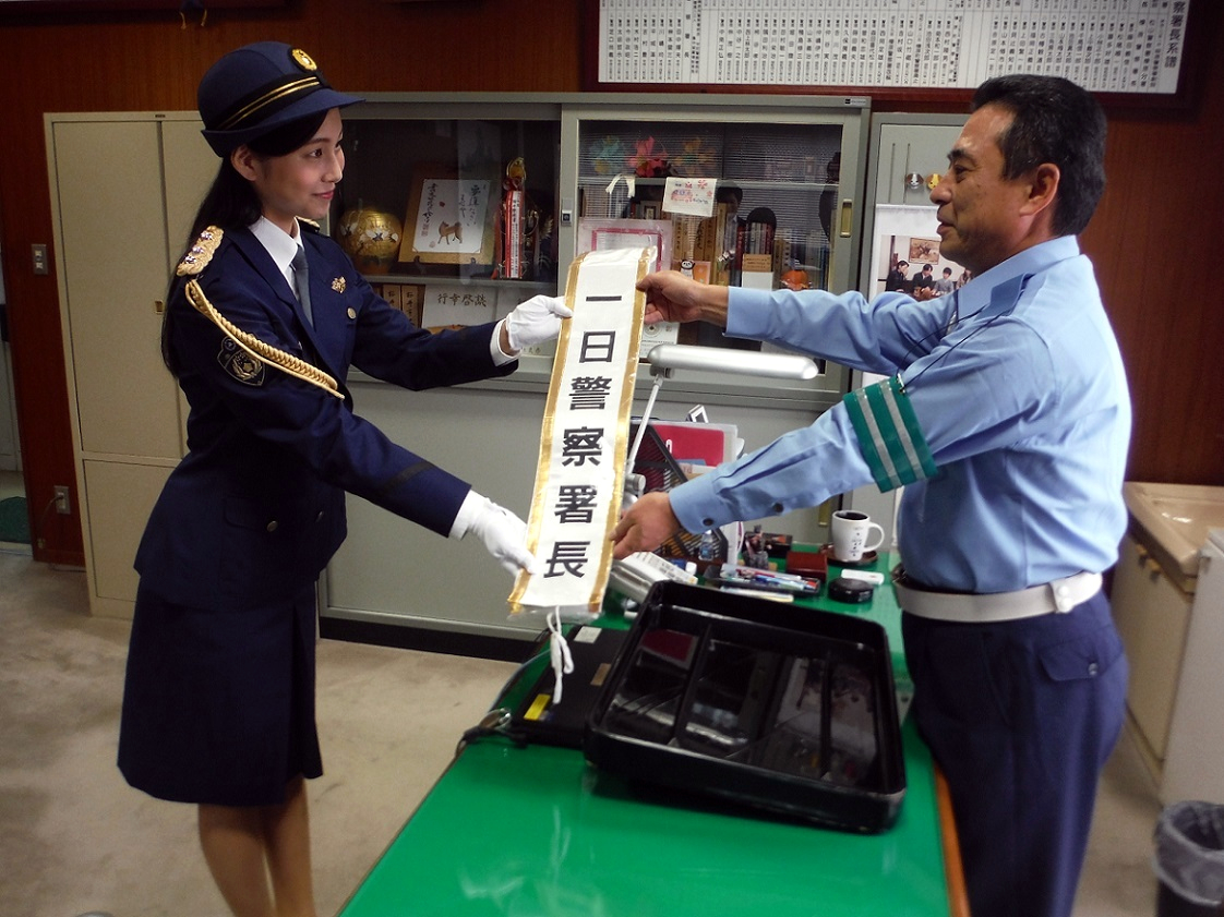 Momoka Yoshida, Honorary Chief of Sakurai Police Station for one day, met Kazuki Imanishi, Chief of Sakurai Police Station, at Sakurai Police Station in Sakurai City, Nara Prefecture on September 21, 2018.